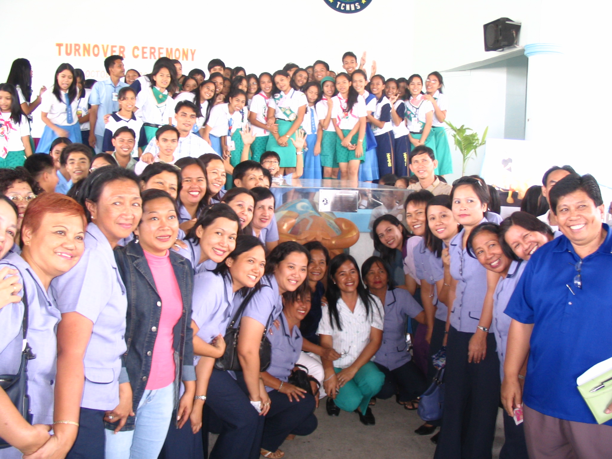 The teachers and students of TCNHS posing with the newly-handed Guyito sculpture from the Philippine Daily Inquirer.